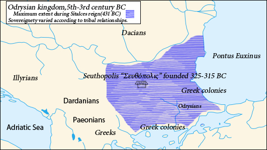 Map of the Odrysian kingdom Own work,data from Cambridge ancient history D. M. Lewis, John Boardman, Simon Hornblower, Cambridge University Press, 1994, ISBN 0521233488, p. 444 The Oxford Classical Dictionary by Simon Hornblower and Antony Spawforth,ISBN-10: 0198606419,page 1514,"the kingdom of the Odrysae the leading tribe of Thrace extented ver present-day Bulgaria, Turkish Thrace (east of the Hebrus) and Greece between the Hebrus and Strymon except for the coastal strip with its Greek cities" The Odrysian Kingdom of Thrace: Orpheus Unmasked (Oxford Monographs on Classical Archaeology) by Z. H. Archibald,1998,ISBN-10-0198150474 The Thracians 700 BC-AD 46 (Men-at-Arms) by Christopher Webber and Angus McBride,2001,ISBN-10:1841763292 Blank map small part of South Europe and North Africa.svg